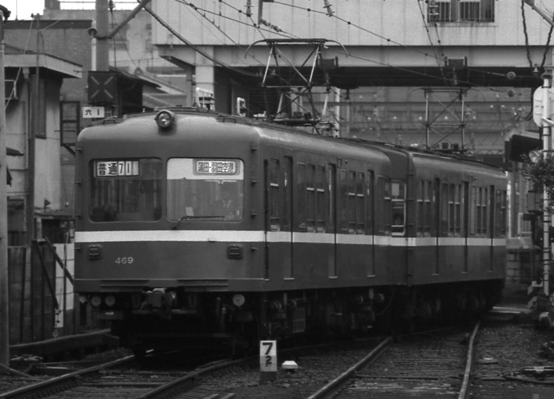 Keikyu 469 leaving Anamori Inari